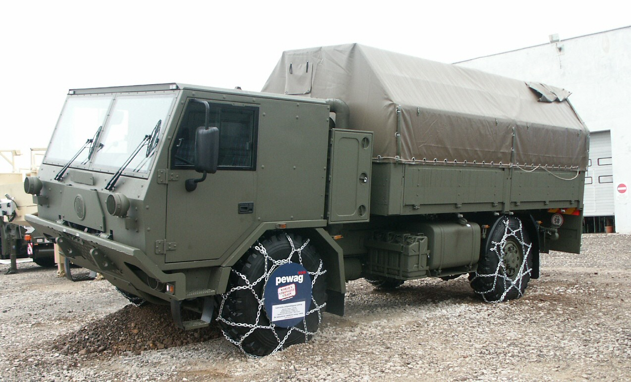 Tatra T815-7 780R59 military truck.